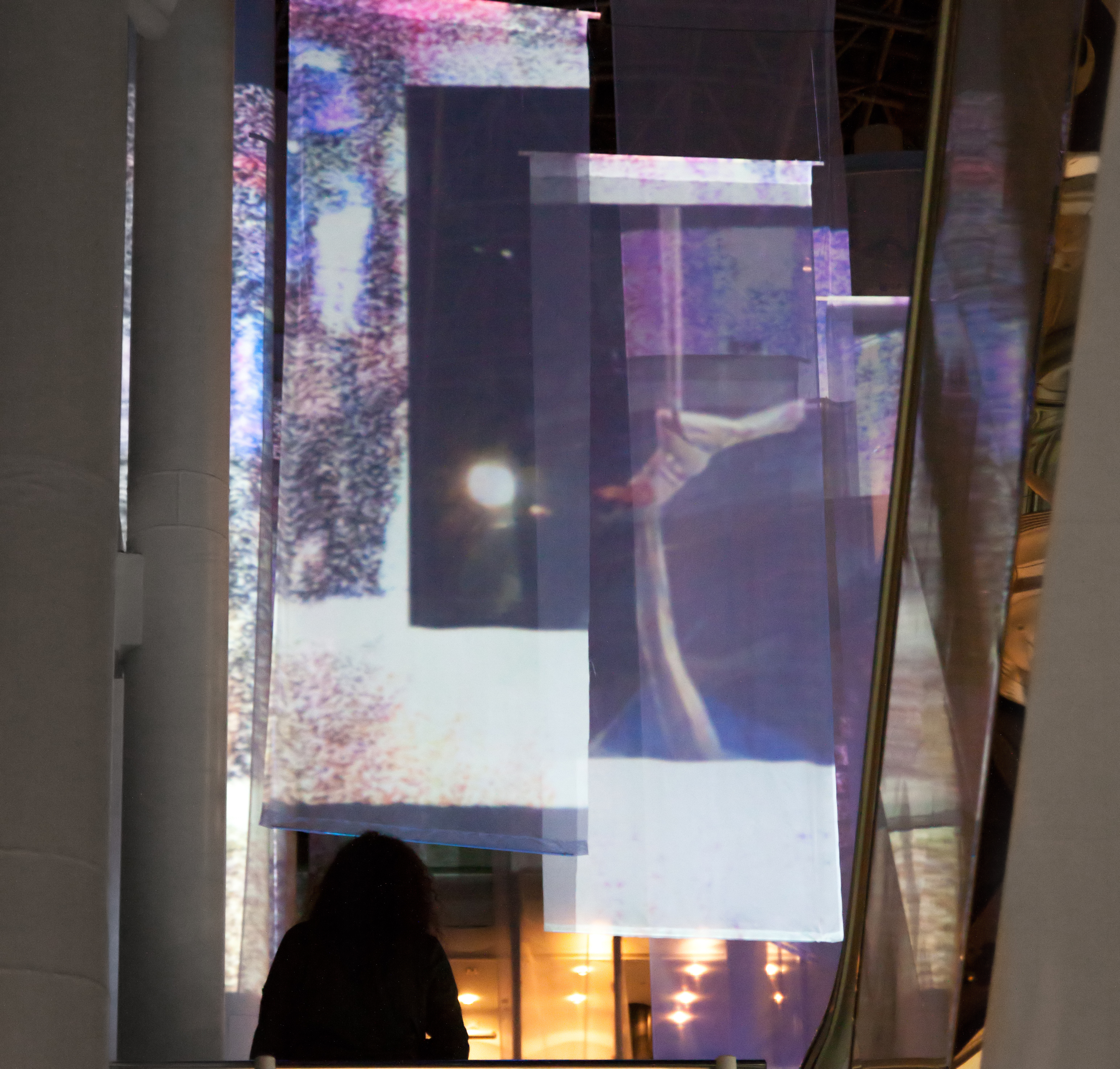 Siegfried Kaercher Live Performance Luminale 2012 at Zeilgalerie Frankfurt